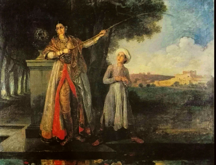 Boulone Lise and James Martin were Claude Martin's adopted children.